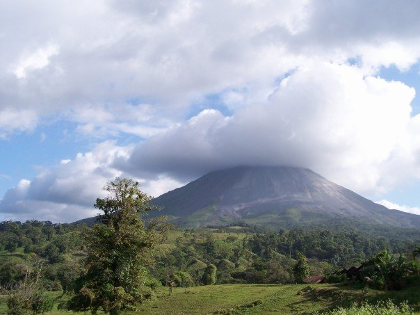 Photo of the Arenal Volcano, Taken in Guanacaste, Costa Rica.